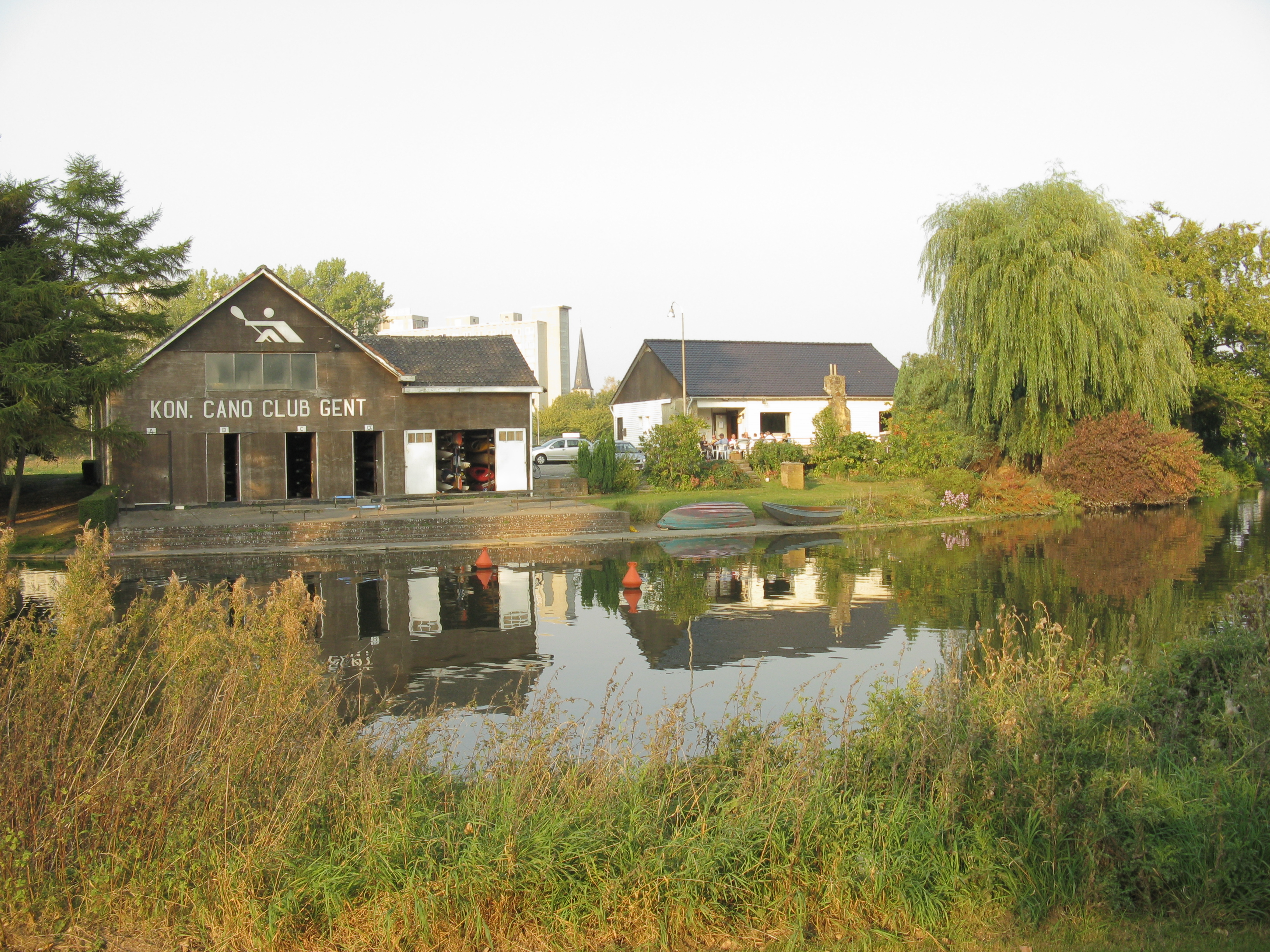 Royal Cano Club at the Watersportbaan in Ghent.